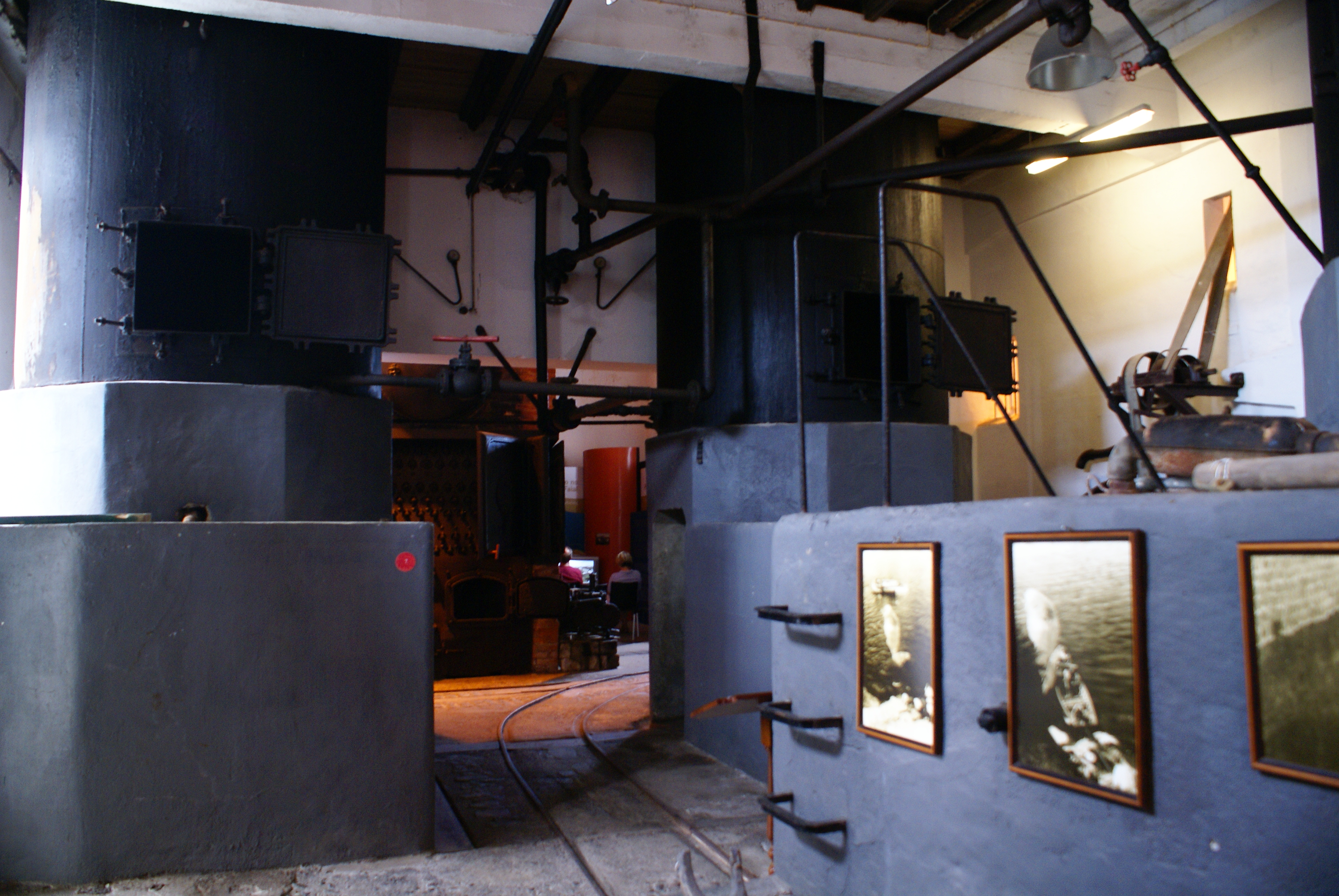 Fábrica da Baleia, actual Museu da Baleia, aspectos 3, cidade da Horta, ilha do Faial, Açores, Portugal